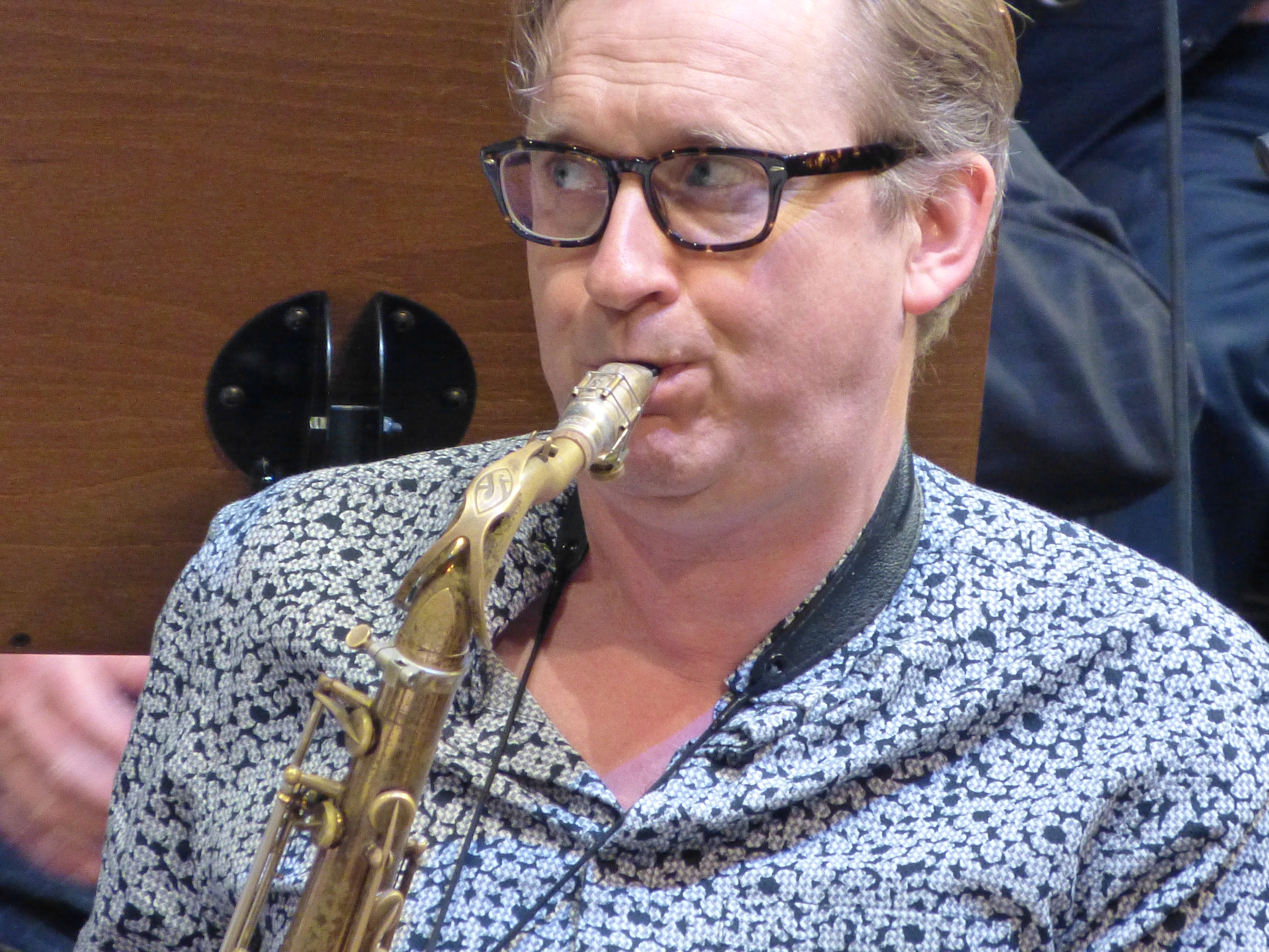 Jasper Blom in concert with the David Kweksilber Big Band at WDR, Cologne, Germany, May 6th, 2017 in the course of the Acht Brücken festival